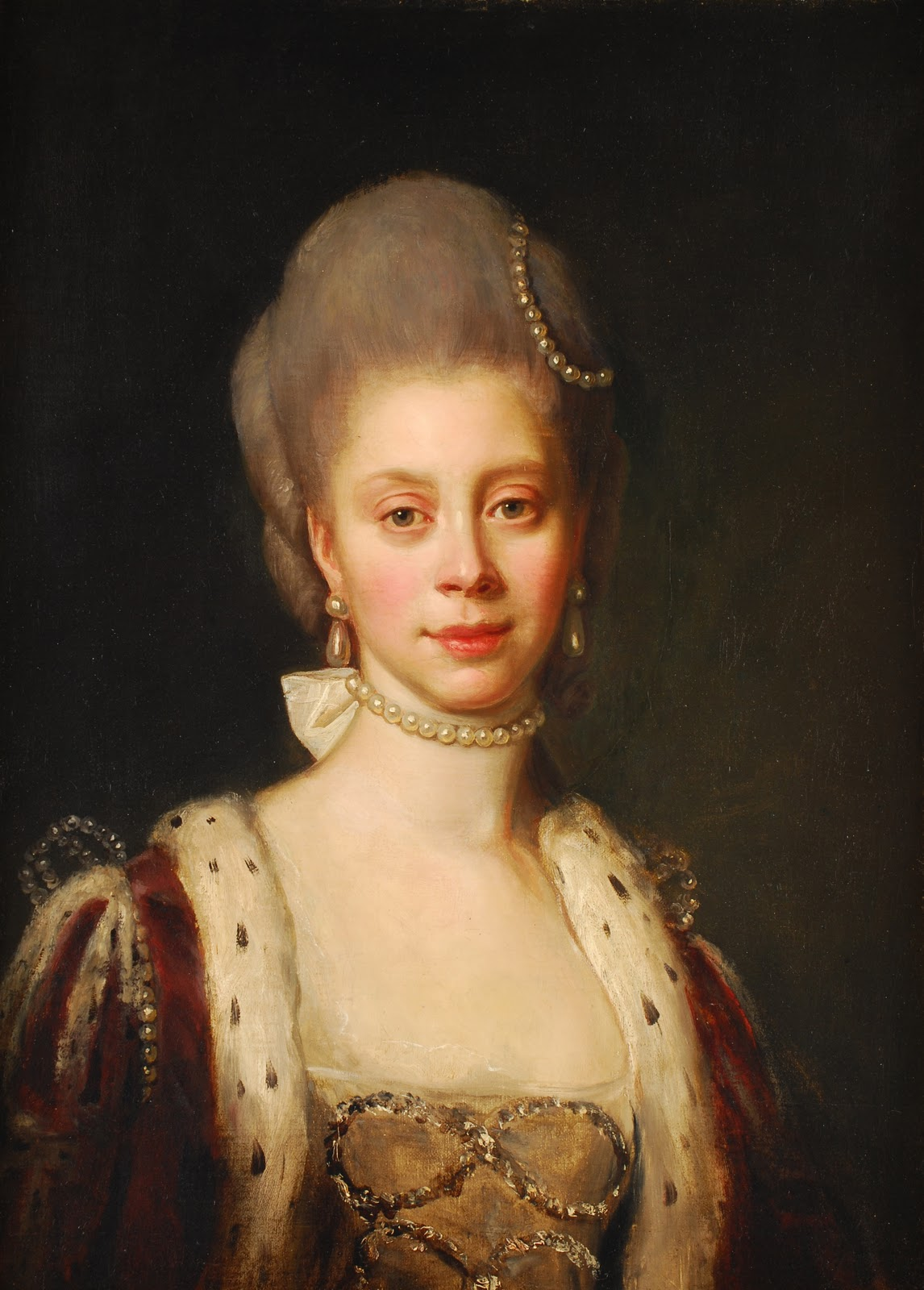 Portrait of Queen Charlotte